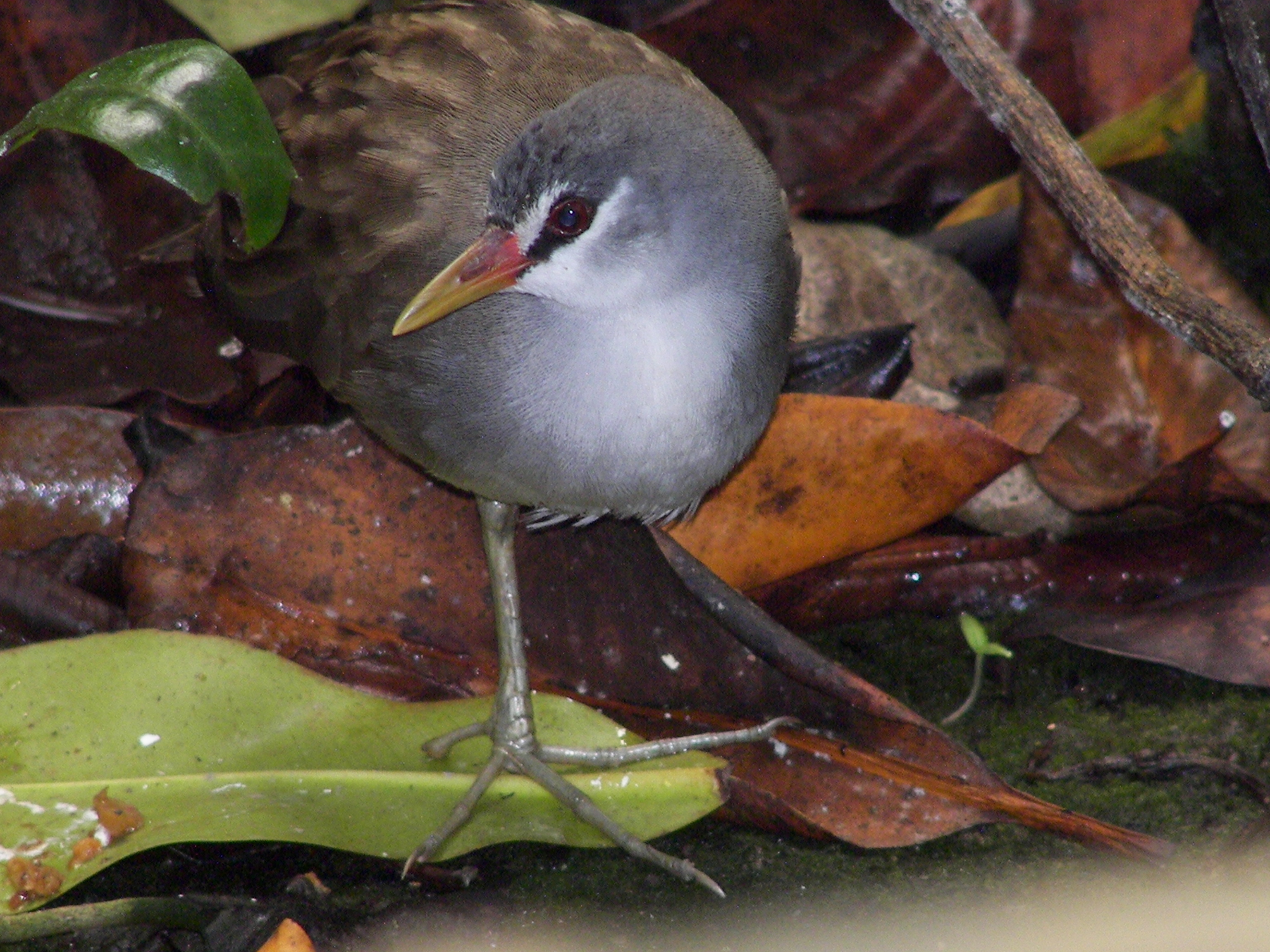 A White-browed Crake (Porzana cinerea).